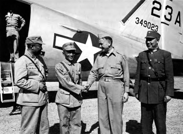 Major General Henry S. Auran, Commanding General, U.S. Services of Supply, China Theater, arriving at Chihchiang in June 1945 for an inspection tour, is met by officials of the Chinese Services of Supply. From the left, General Pai Yun-shung, General Chang, General Aurand, and General Cheng.